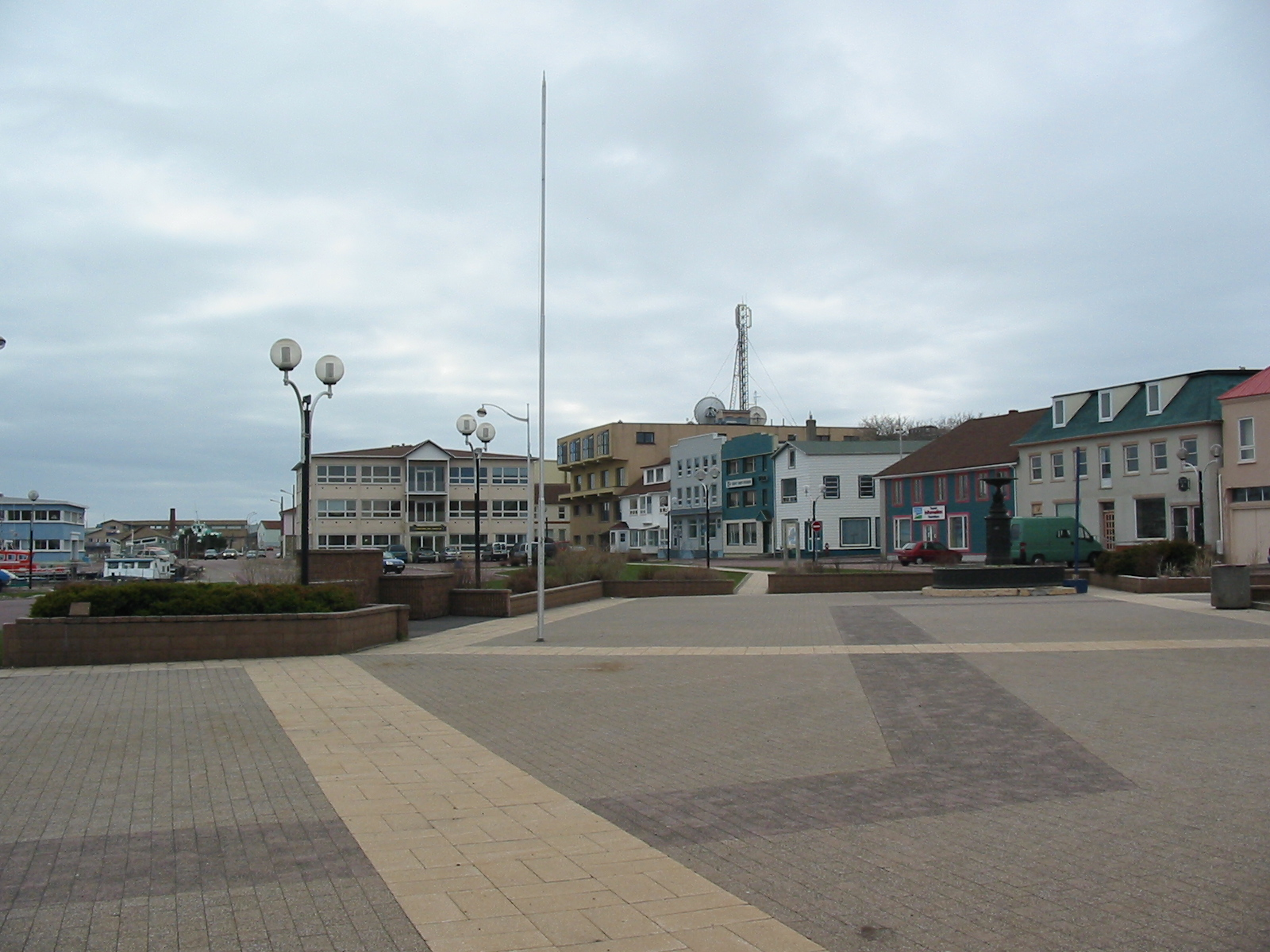 General Charles de Gaulle square; May 13, 2008.